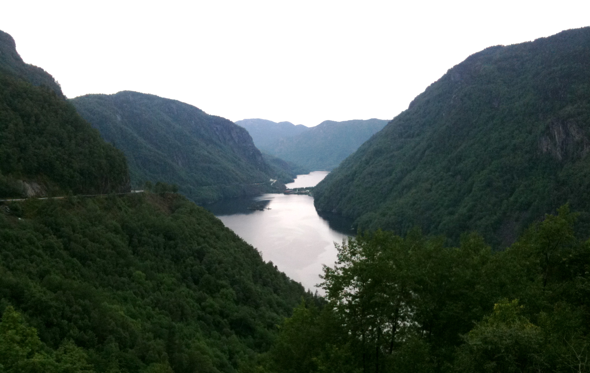 Lovrafjorden a fjord in Suldal municipality, Rogaland, Norway